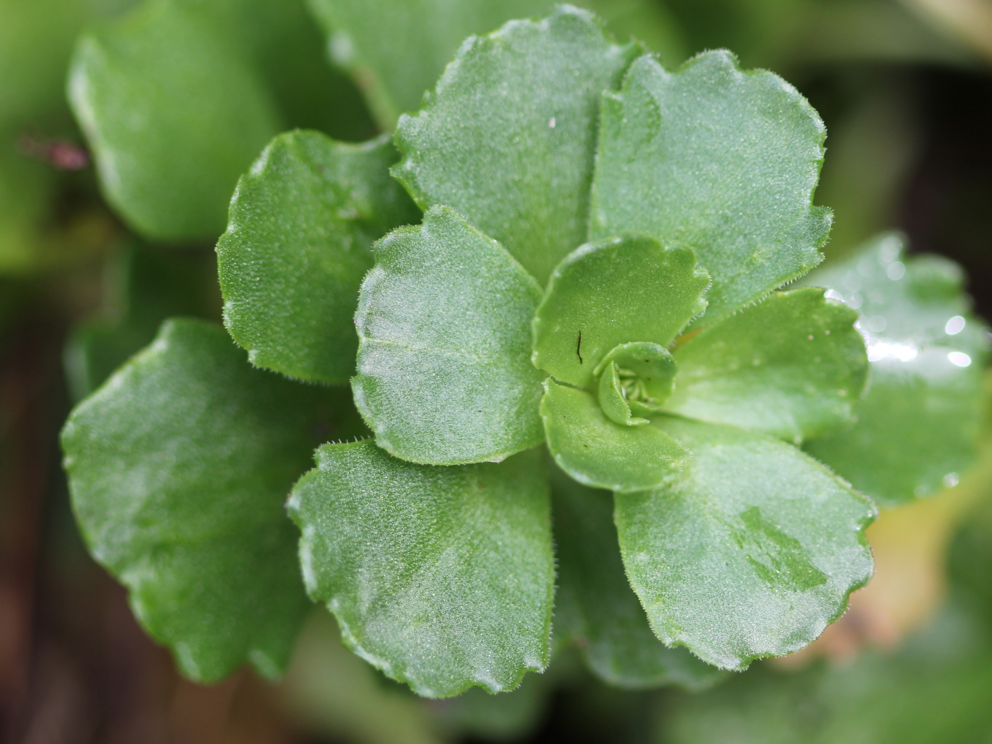 Phedimus leaves